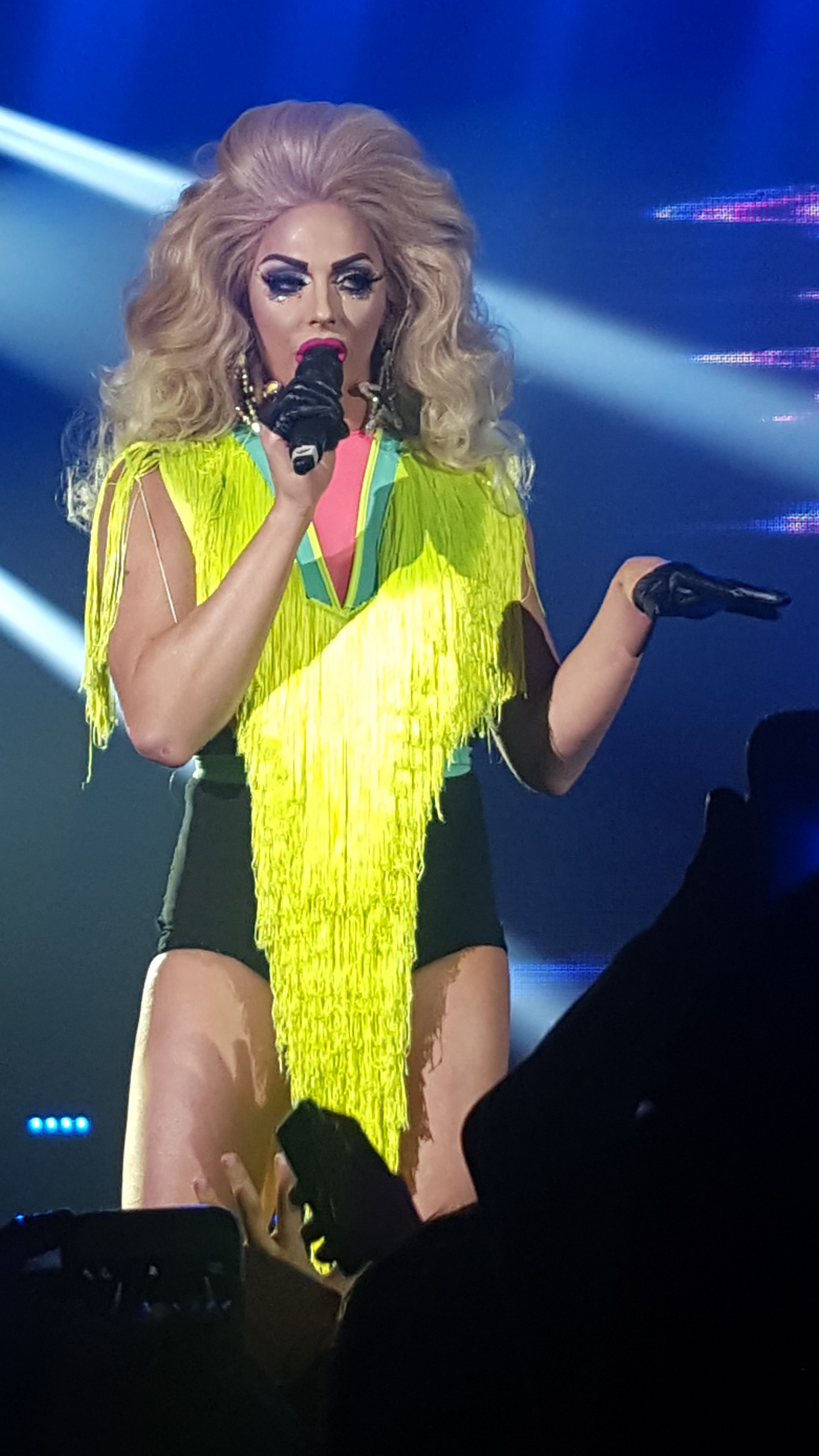 Alyssa Edwards performing in Santiago de Chile, August 2016